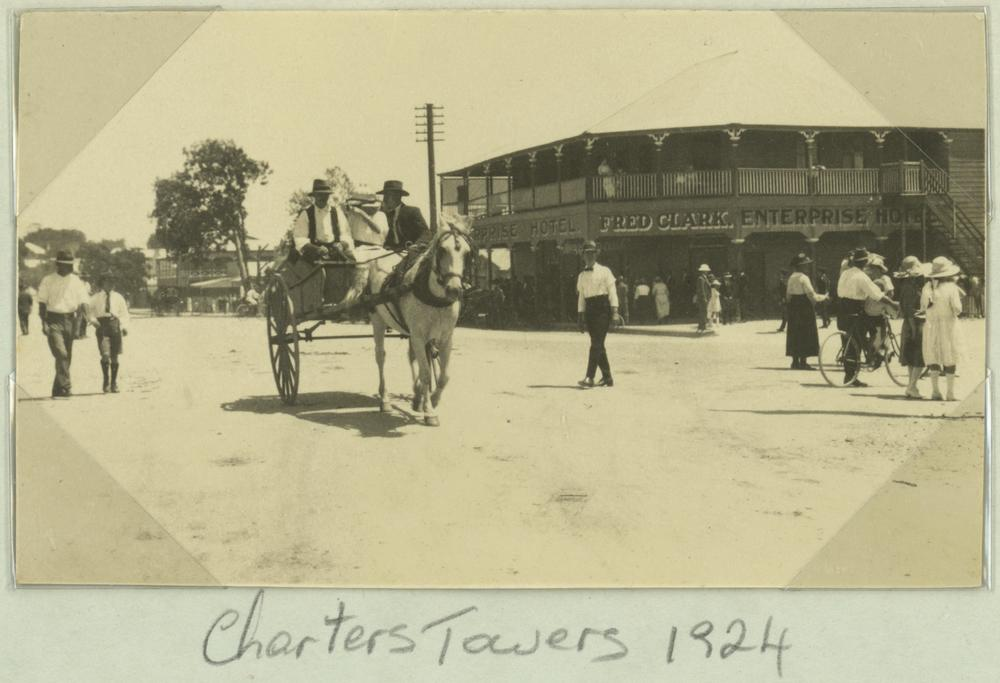 Main street of Charters Towers, 1924.